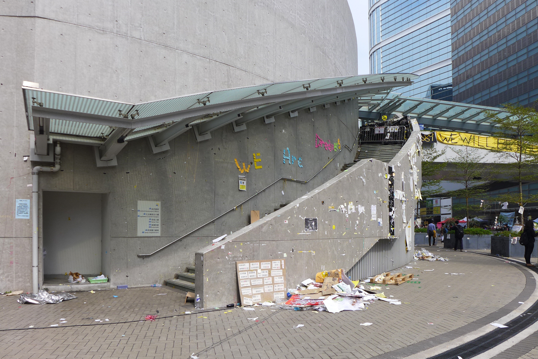 Lennon Wall after people clean